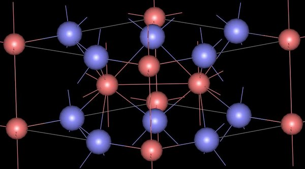 TaN structure viewed normal to the hexagonal axis. Red atoms are Ta Journal = JOURNAL OF SOLID STATE CHEMISTRY, Year = 1977, Volume = 20, Page = 205–207, Title = Preparation and Crystal Structure of b-Ta2N, Authors = Conroy L.E., Christensen A.N.